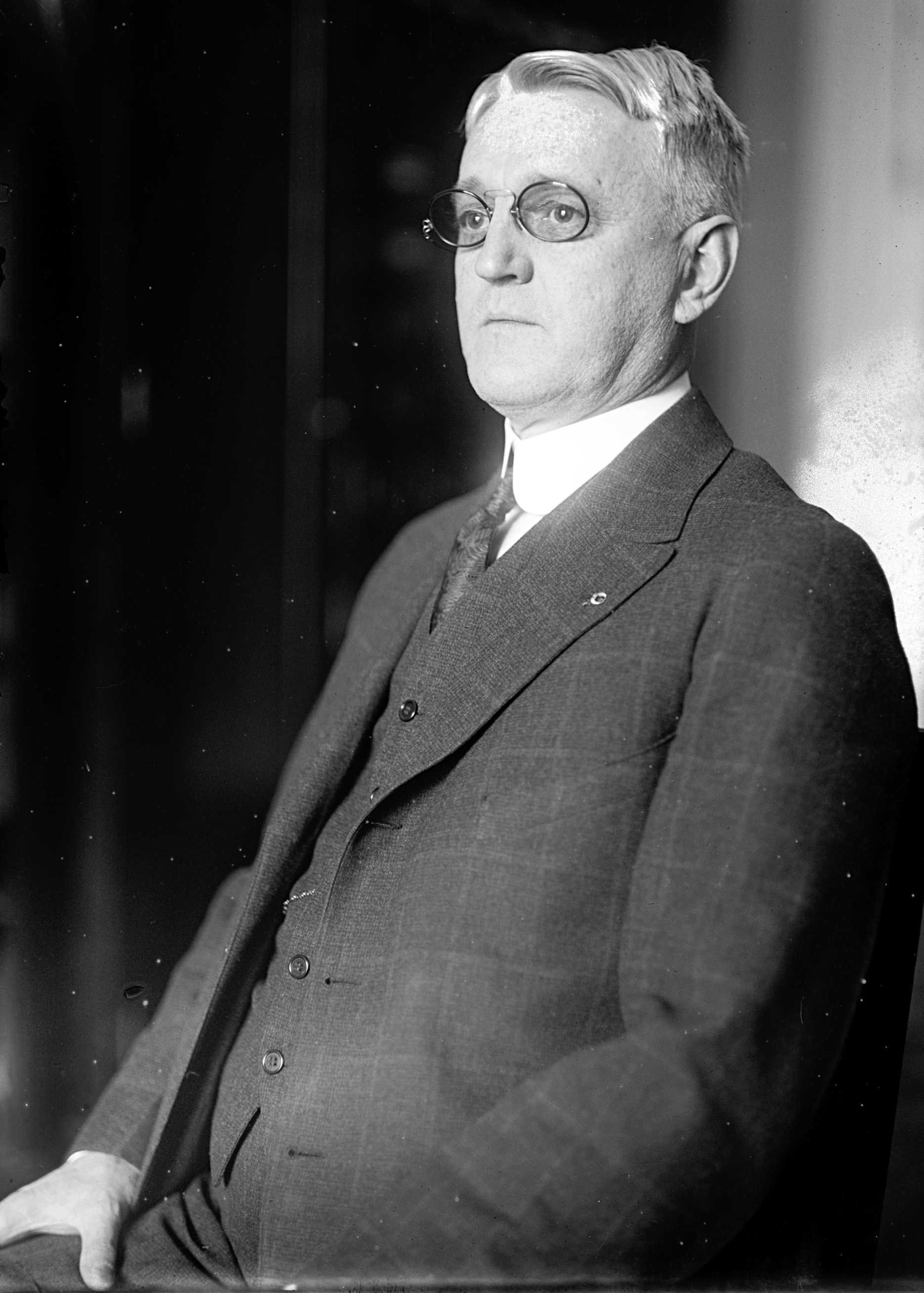 Guy Edgar Campbell, US Representative from Pennsylvania